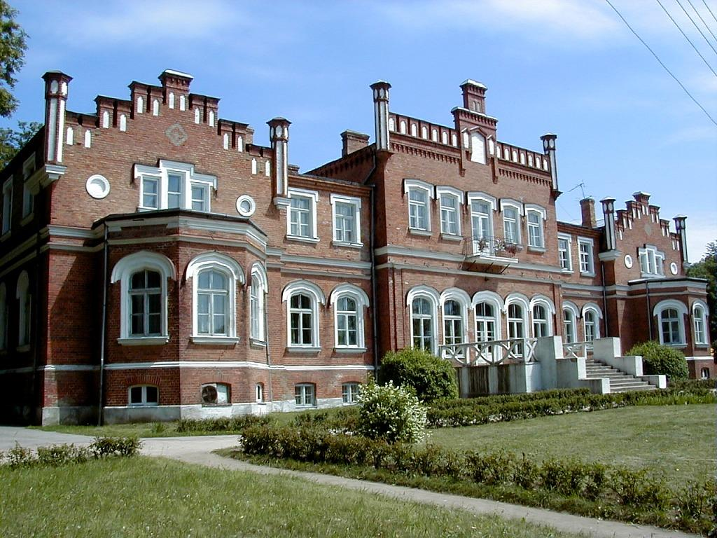 Augstkalne manor (Latvia)